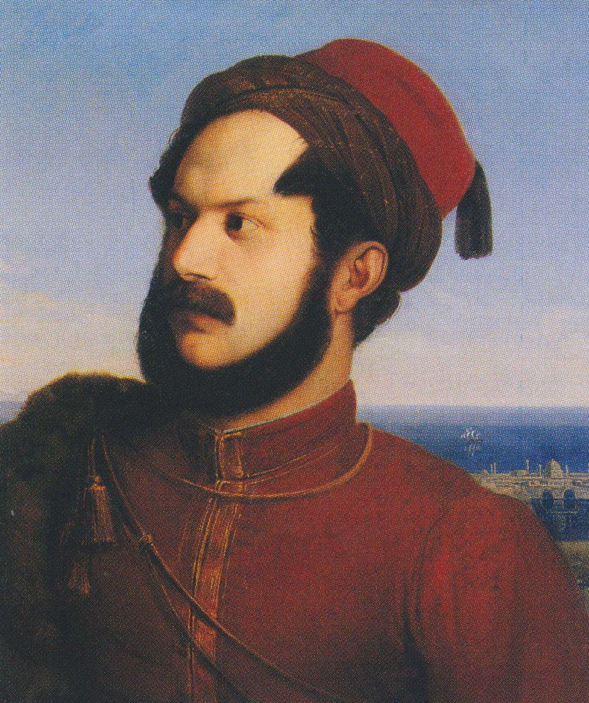 Portrait of Bertalan Szemere (1840s)